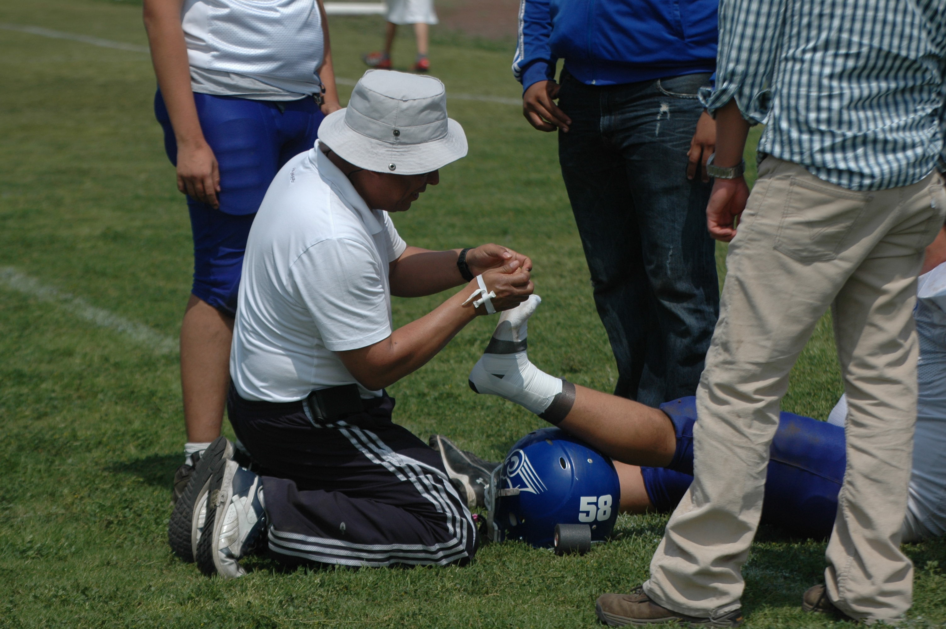 Player getting a bandage on his ankle at an American football game between ITESM-CCM youth team, division A, and Gamos UMA.